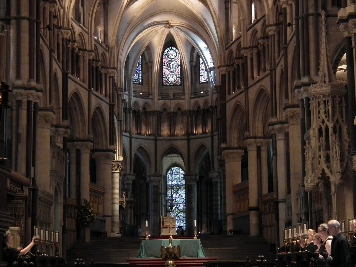 Canterbury Cathedral, Canterbury, England